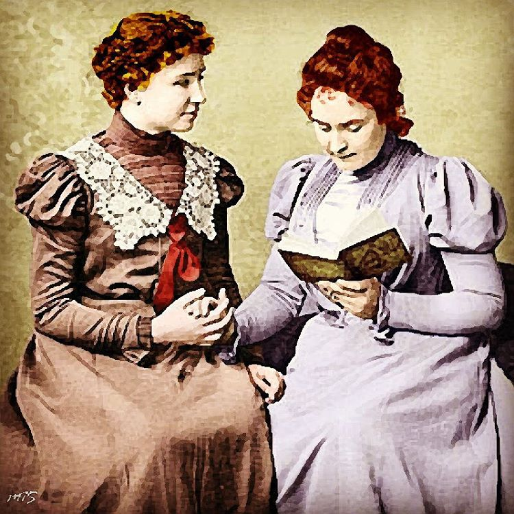 This is a picture that has been colorized by Michael T. Sanders of . Originally, the photograph was taken in 1899 by Alexander Graham Bell at his School of Vocal Physiology and Mechanics of Speech. In the picture is Helen Keller along with lifelong companion and teacher Anne Sullivan.